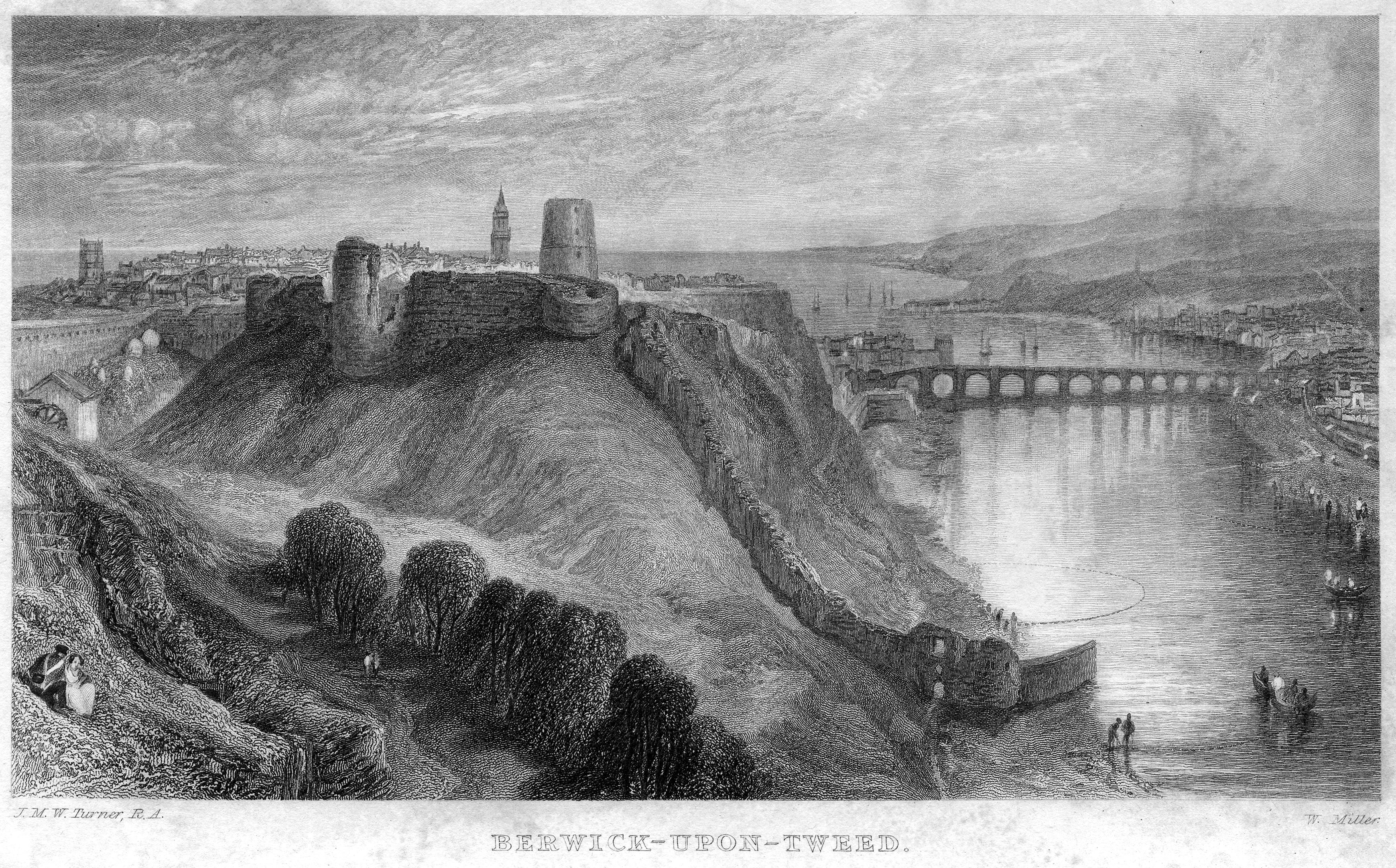 Berwick-upon-Tweed (Rawlinson 515) engraving by William Miller after Turner (Miller paid £57-15-0 in i 1833 for engraving), published in The Poetical Works of Sir Walter Scott, Bart. Vol xii. Each Volume to have a Frontispiece and Vignette Title-page from designs taken from real scenes by J.W. Turner, R.A. Edinburgh: Robert Cadell, Edinburgh; Whittaker, Treacer, and Arnot, London; John Cumming, Dublin 1833-1834